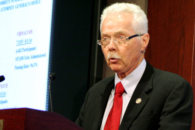 Larry Long speaking at the SD Trial Lawyers Assoc. in 2005 Other information None